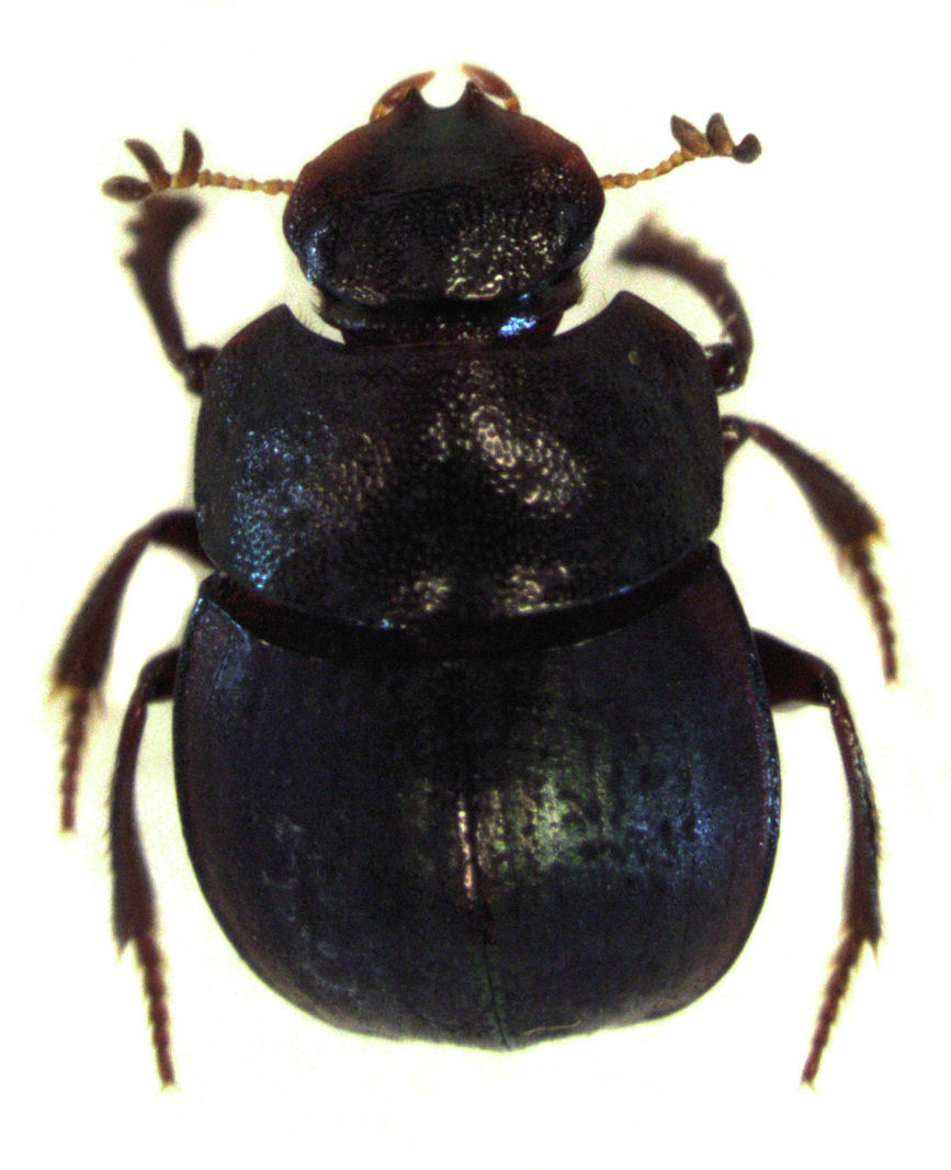 adult Saphobius edwardsi (oblique dorsal habitus to show detail of head) (length about 4 mm). Shakespear Regional Park, pitfall trap E23 NE 1-3, Auckland, New Zealand, 2010.